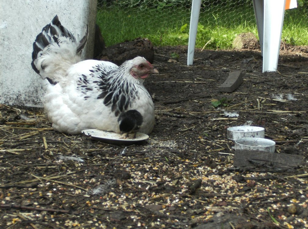 Picture of deutsches reichshuhn